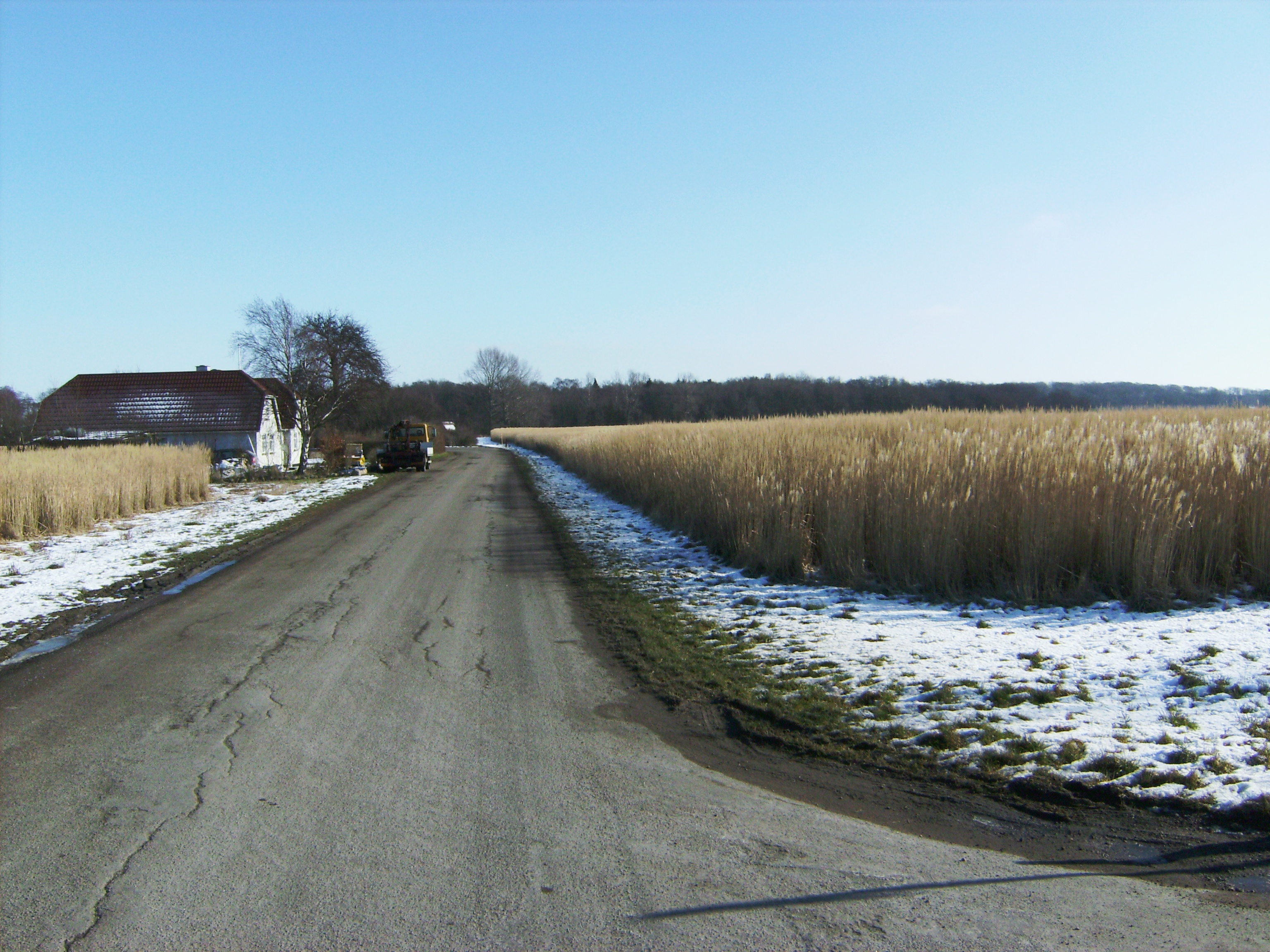 Sandager is small village in Denmark, Lolland